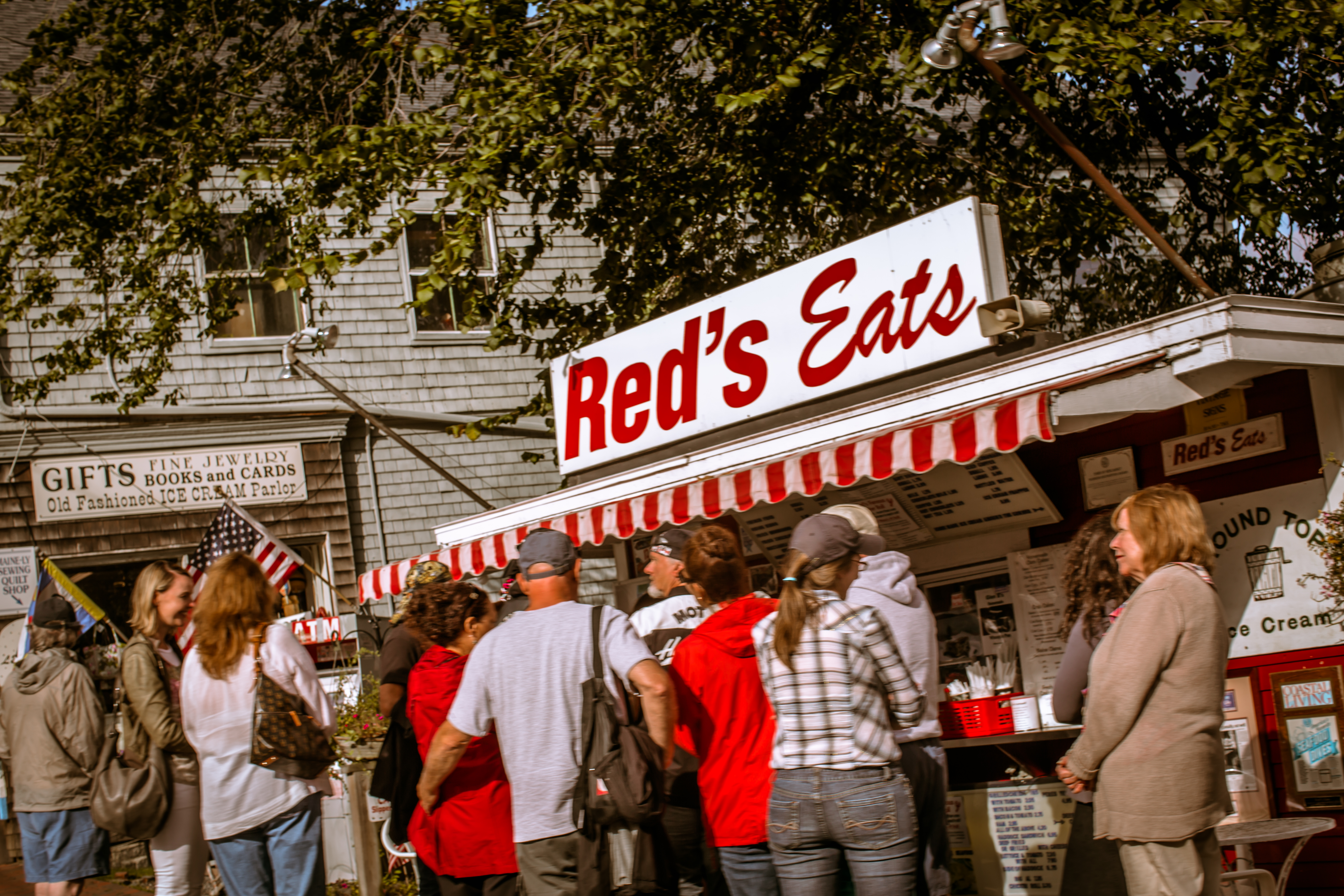 Red's Eats, Wiscasset, Maine, USA 2012